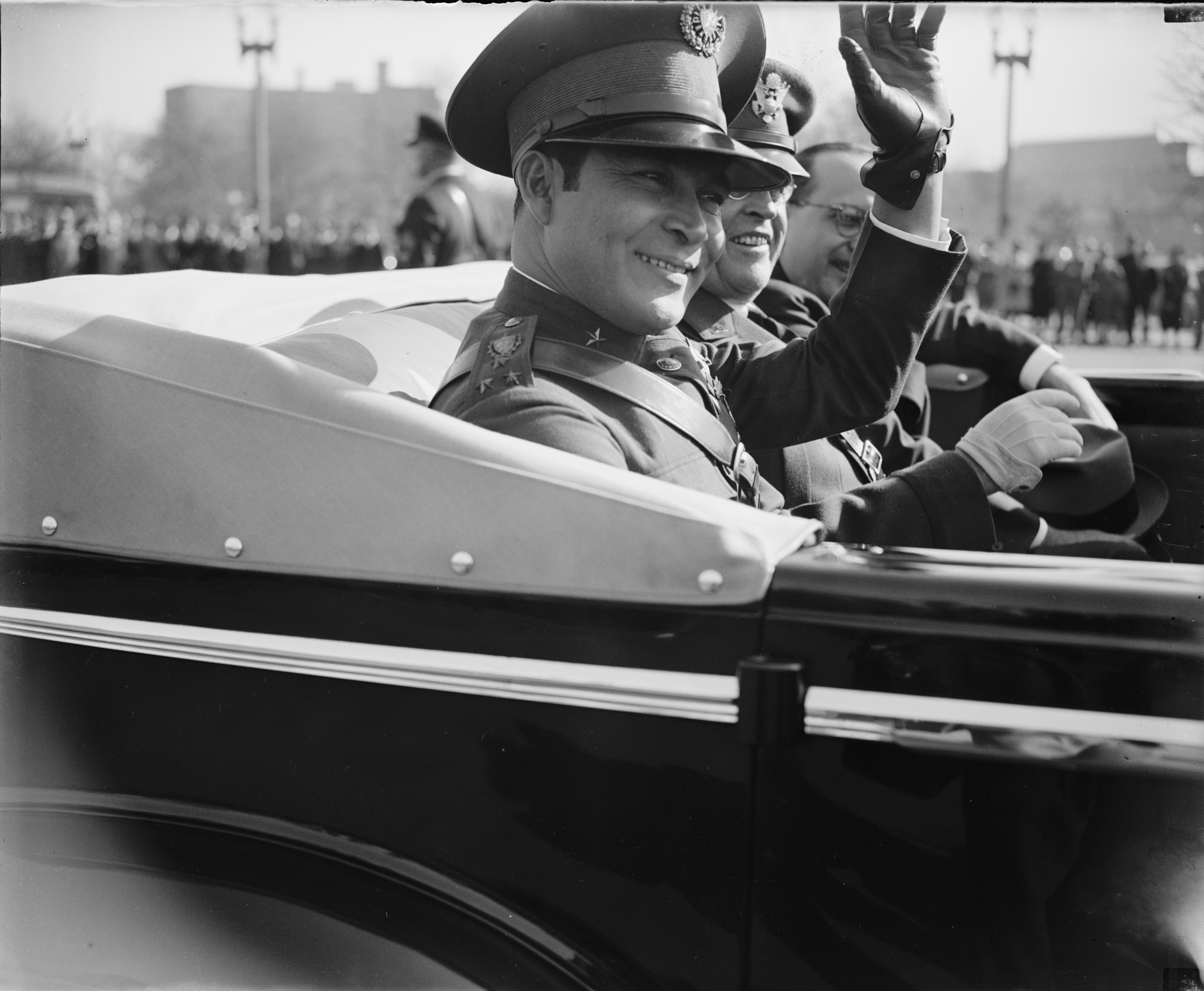 Cuban dictator Fulgencio Batista with U.S. Army Chief of staff Malin Craig in Washington D.C. on Armistice Day 1938.